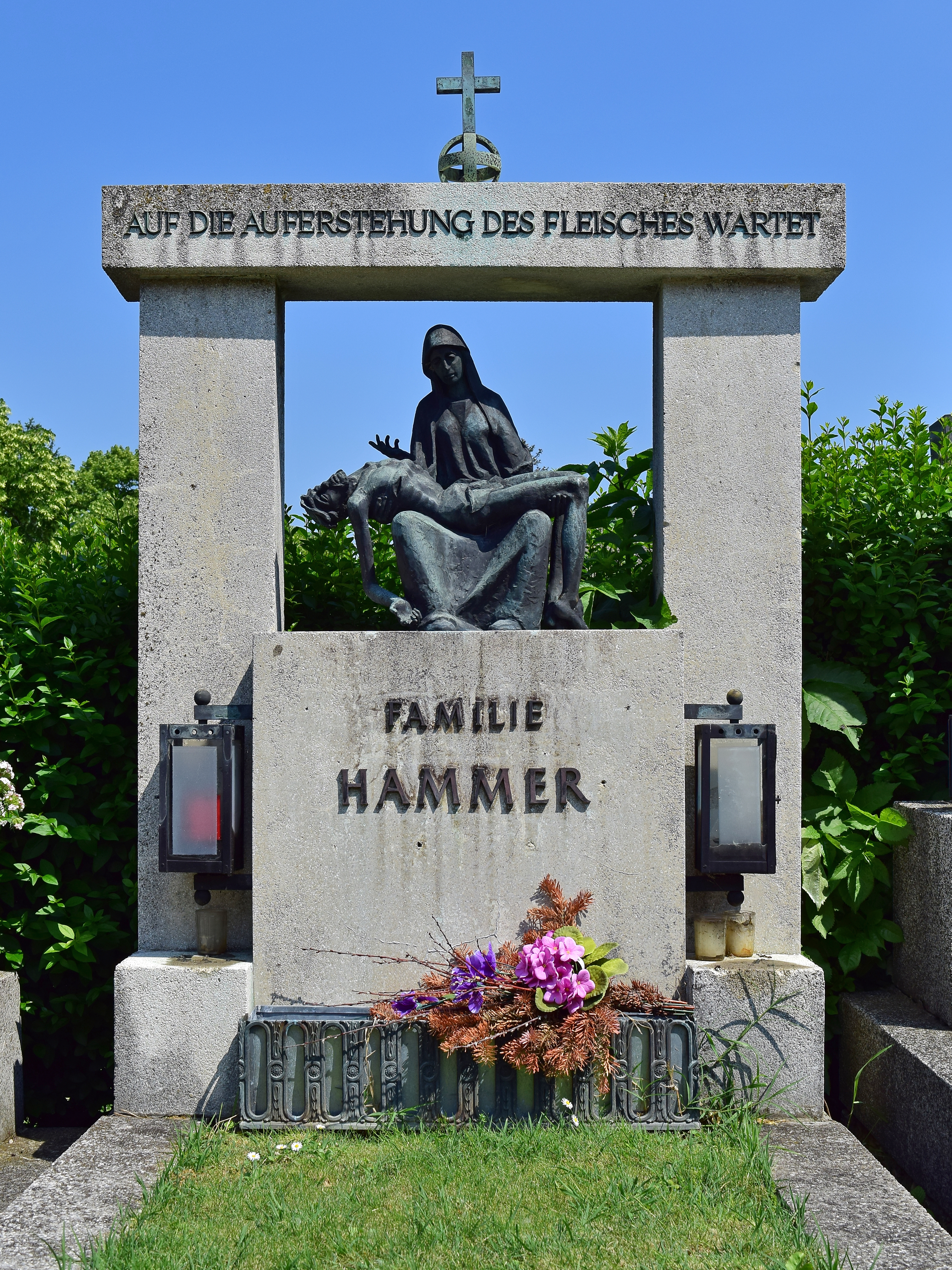 Grab des Bildhauers Viktor Hammer am Ottakringer Friedhof (Gruppe 29, Reihe 14, Nr. 35)